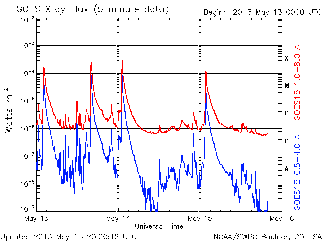 The 13-15 May, 2013 series of four X-class flares erupted by AR1748: X1.7, X2.8, X3.2 and X1.2, as they were registered by the real-time monitor (3 days, 5-min data) of GOES 15 satellite X-ray Flux.